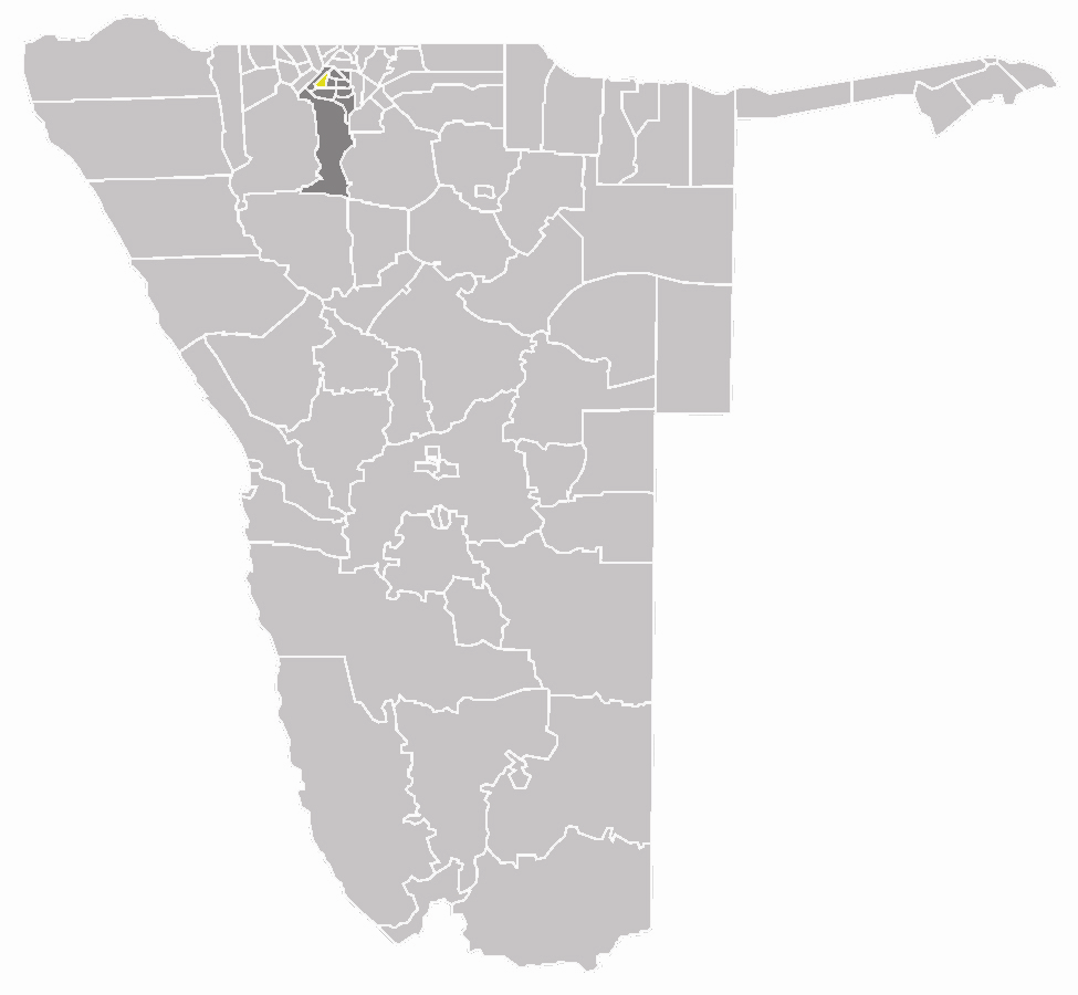 map of the Oshakati West constituency within the Oshana region, Namibia